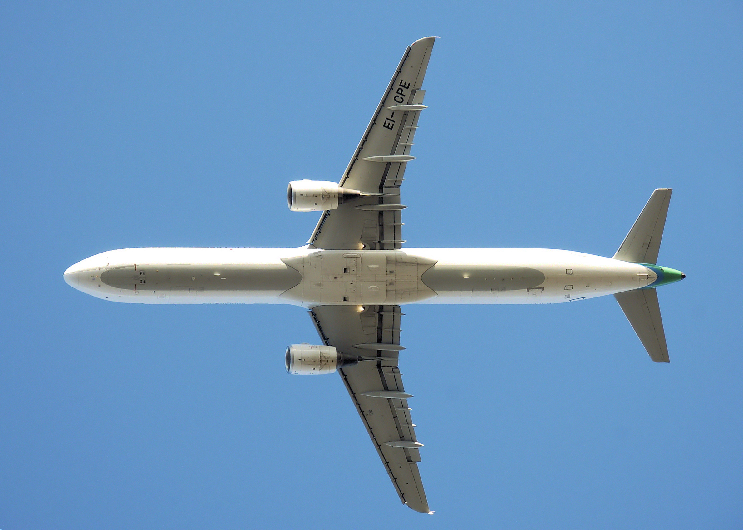 Aer Lingus A321-200 (EI-CPE), seen in planform view, takes off from London Heathrow Airport, England. The undercarriages have fully retracted.